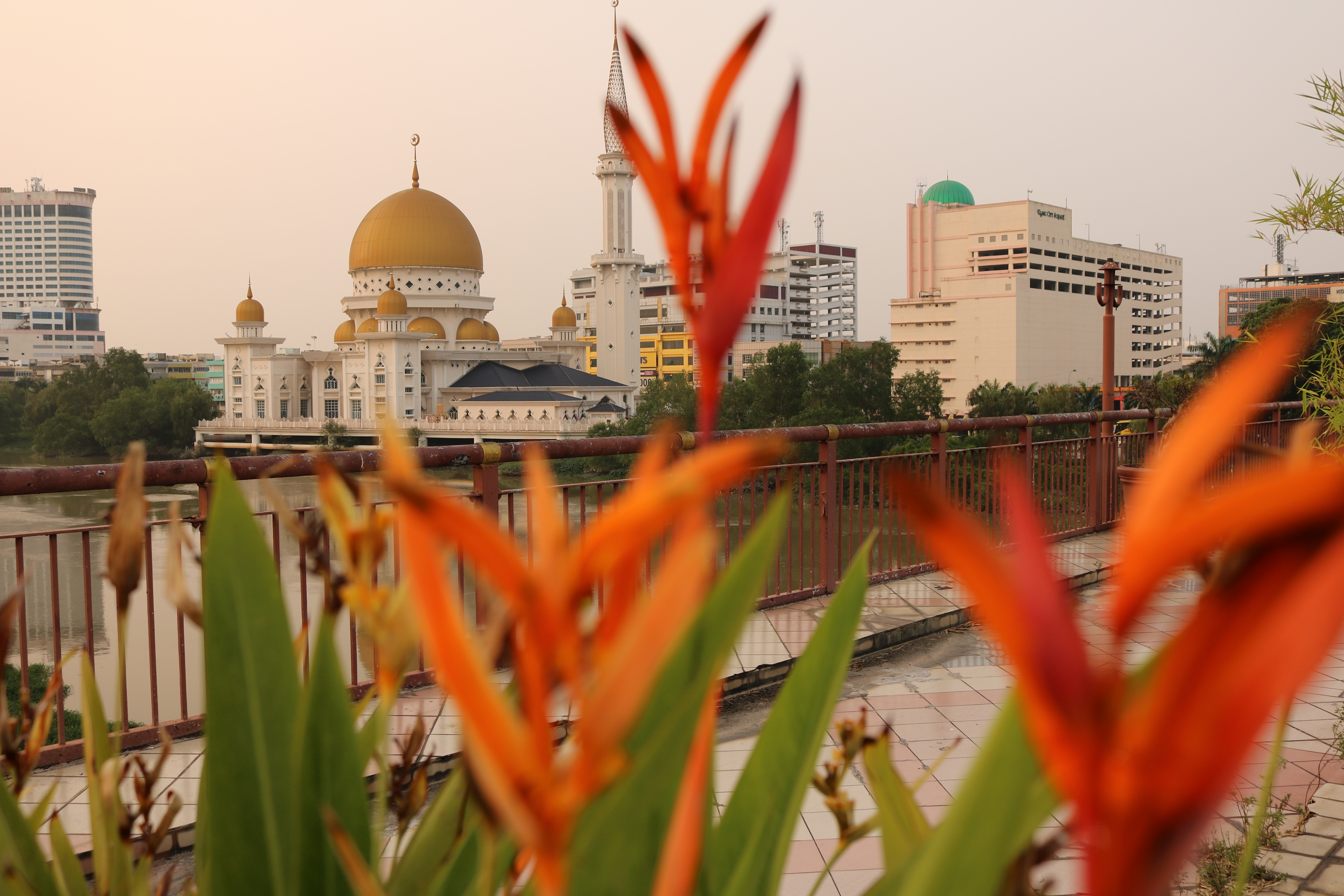 Pasar Jawa Mosque